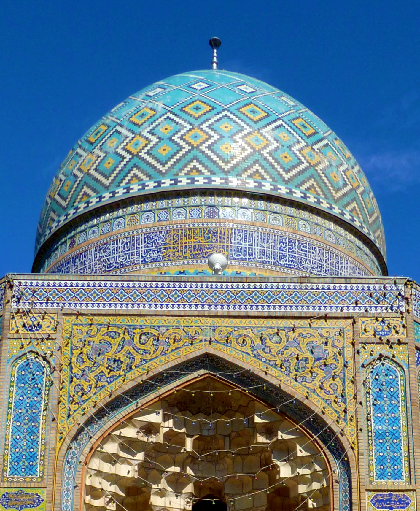 Qadamgah Mosque 02(Cropped)